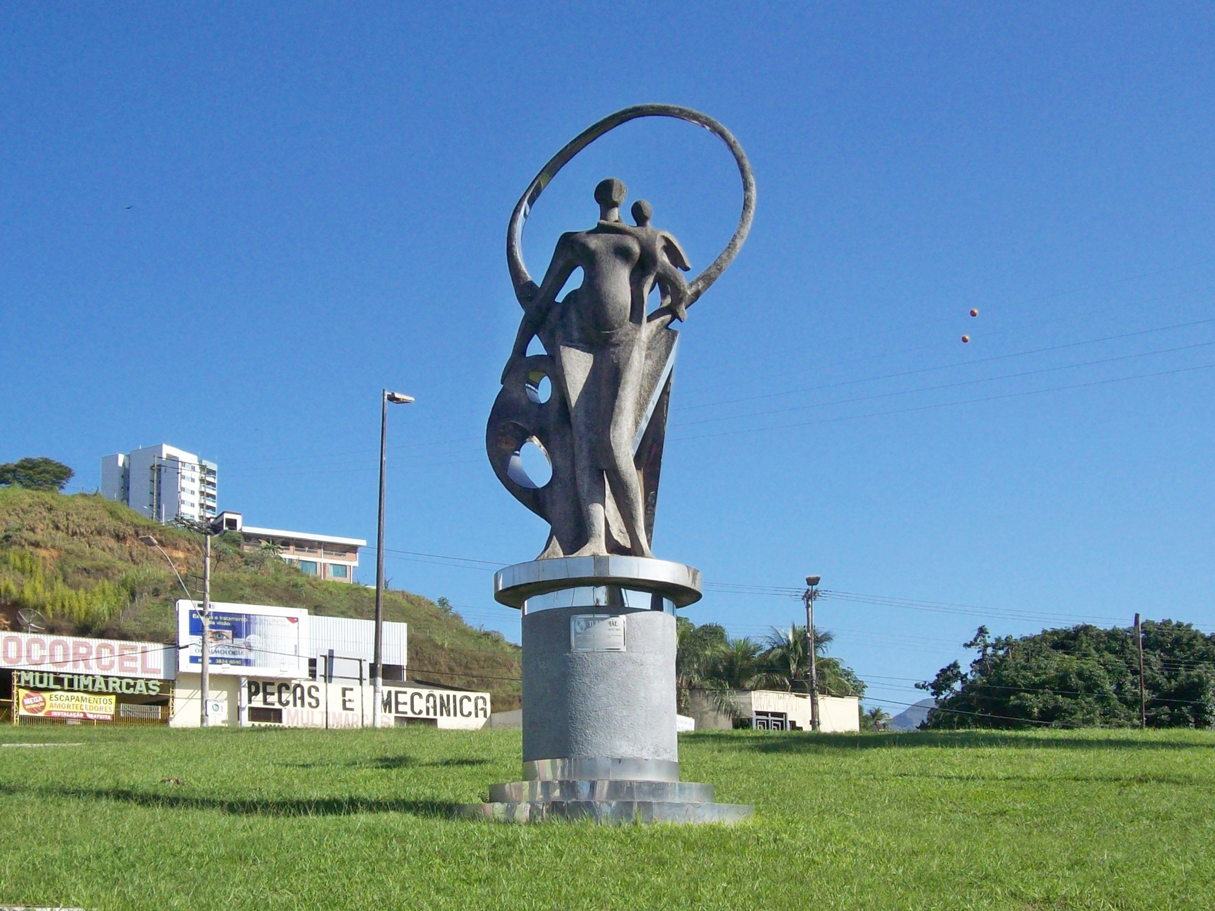 View of the "Terra Mãe" monument, in Coronel Fabriciano, Minas Gerais, Brazil.